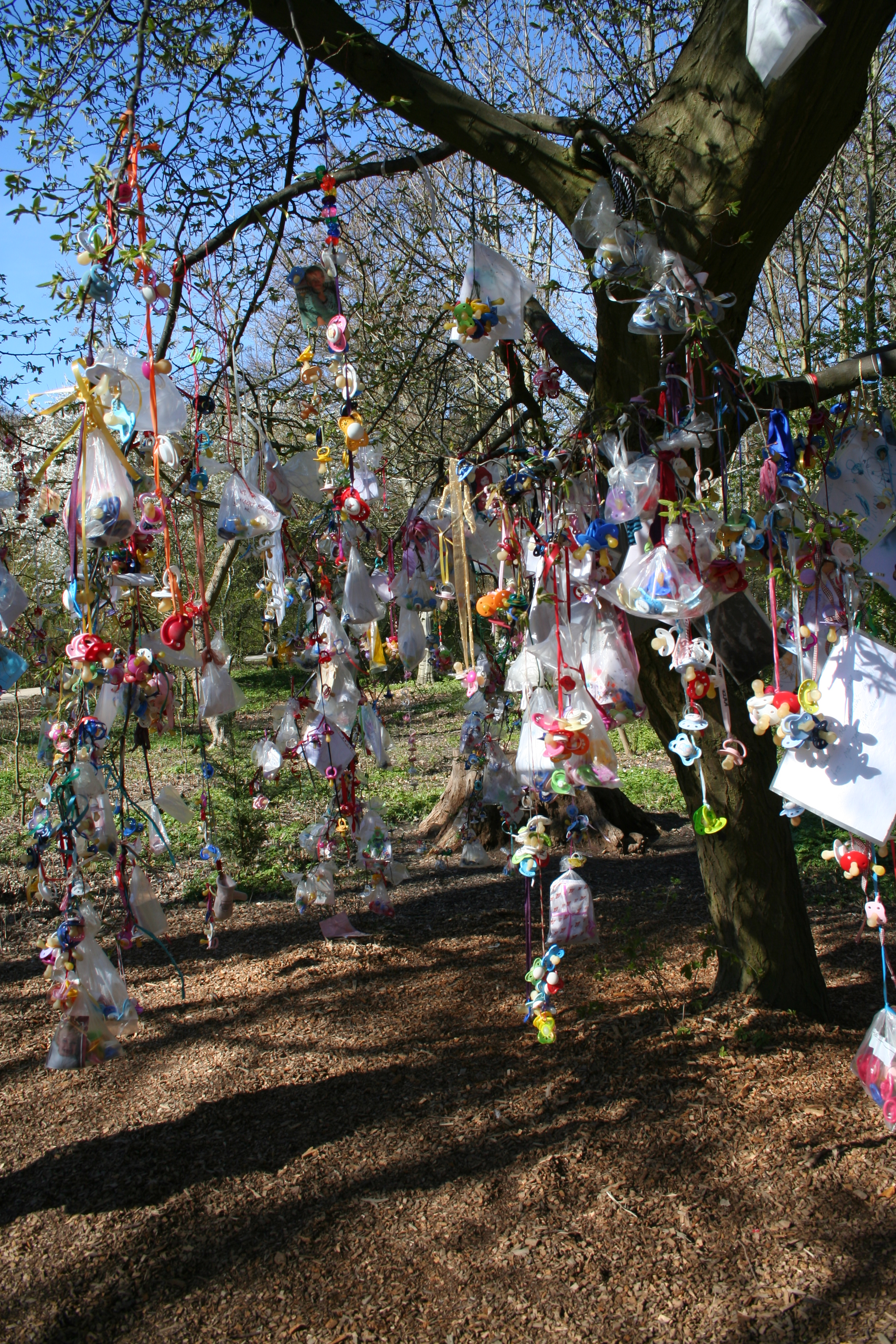 Suttertree (dummy tree) at Frederiksberg Park of Copenaghen (Denmark)